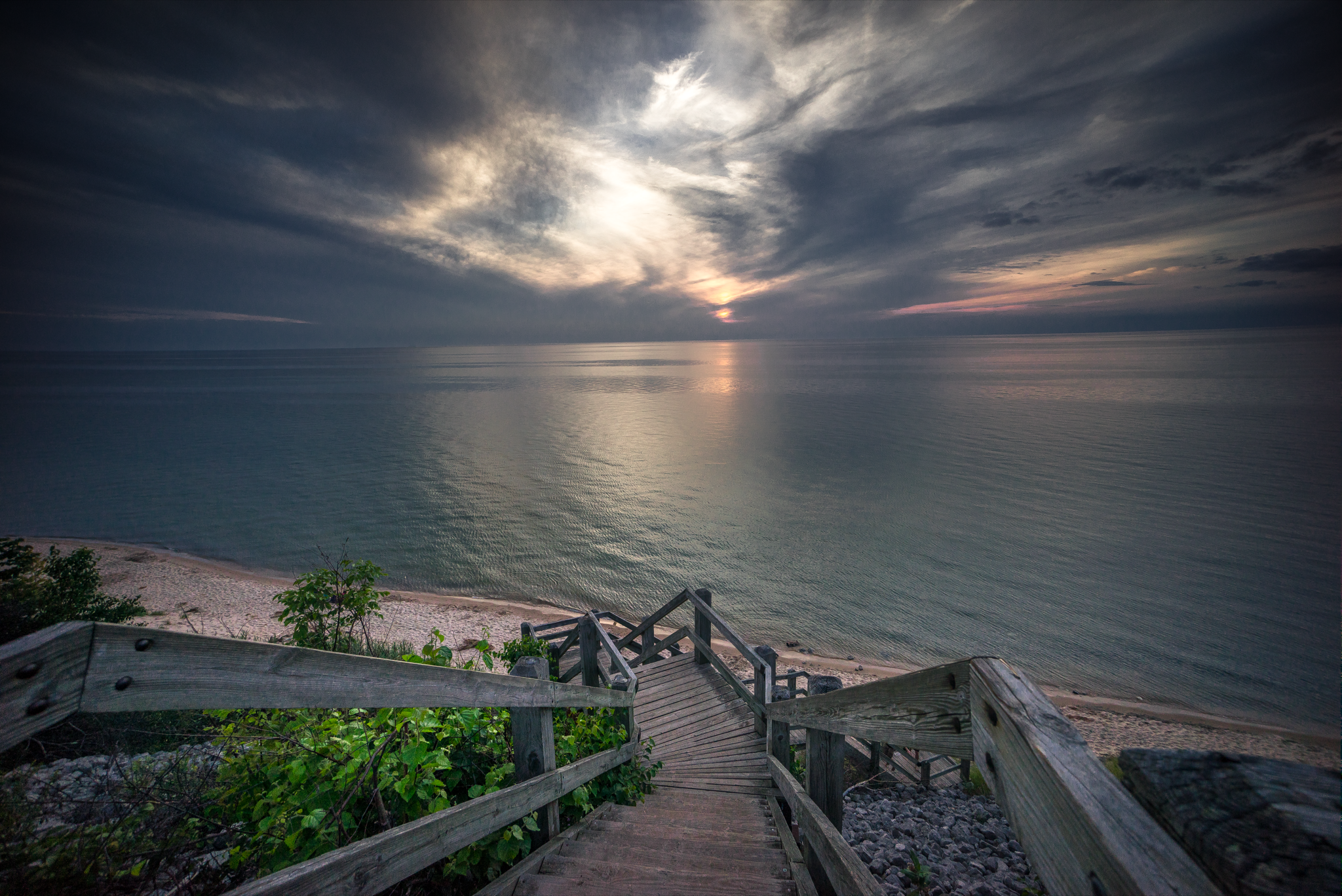 Orchard Beach State Park 3 by Joshua Young